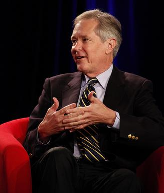 Journalist James Fallows of The Atlantic speaks at the National Chinese Language Conference in 2010. Photo: Kate Bohler for Asia Society